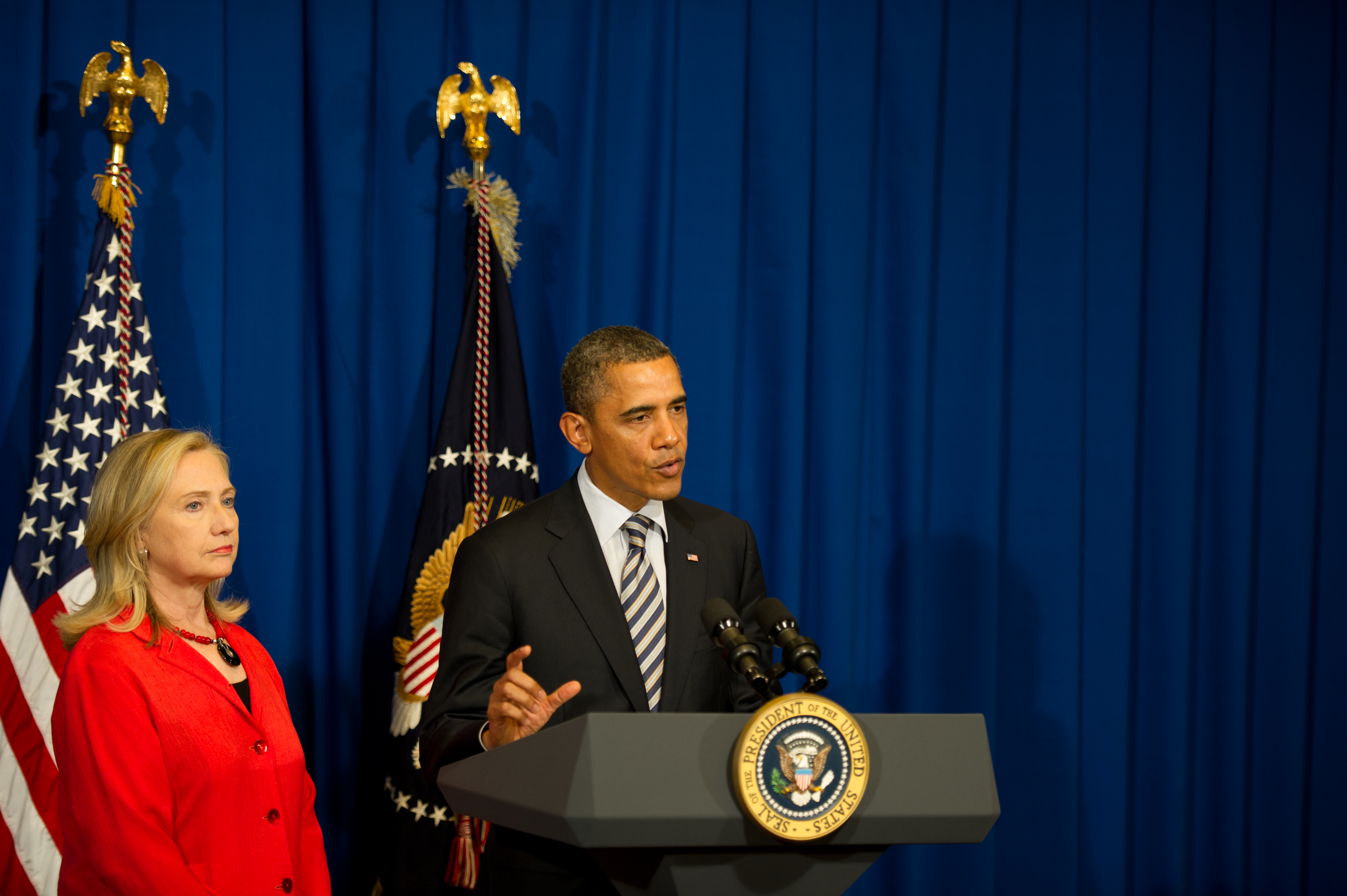 BALI, Indonesia (November 18, 2011) President Barack Obama announces that he will send Secretary of State Hillary Clinton to Burma. [State Department photo by William Ng]